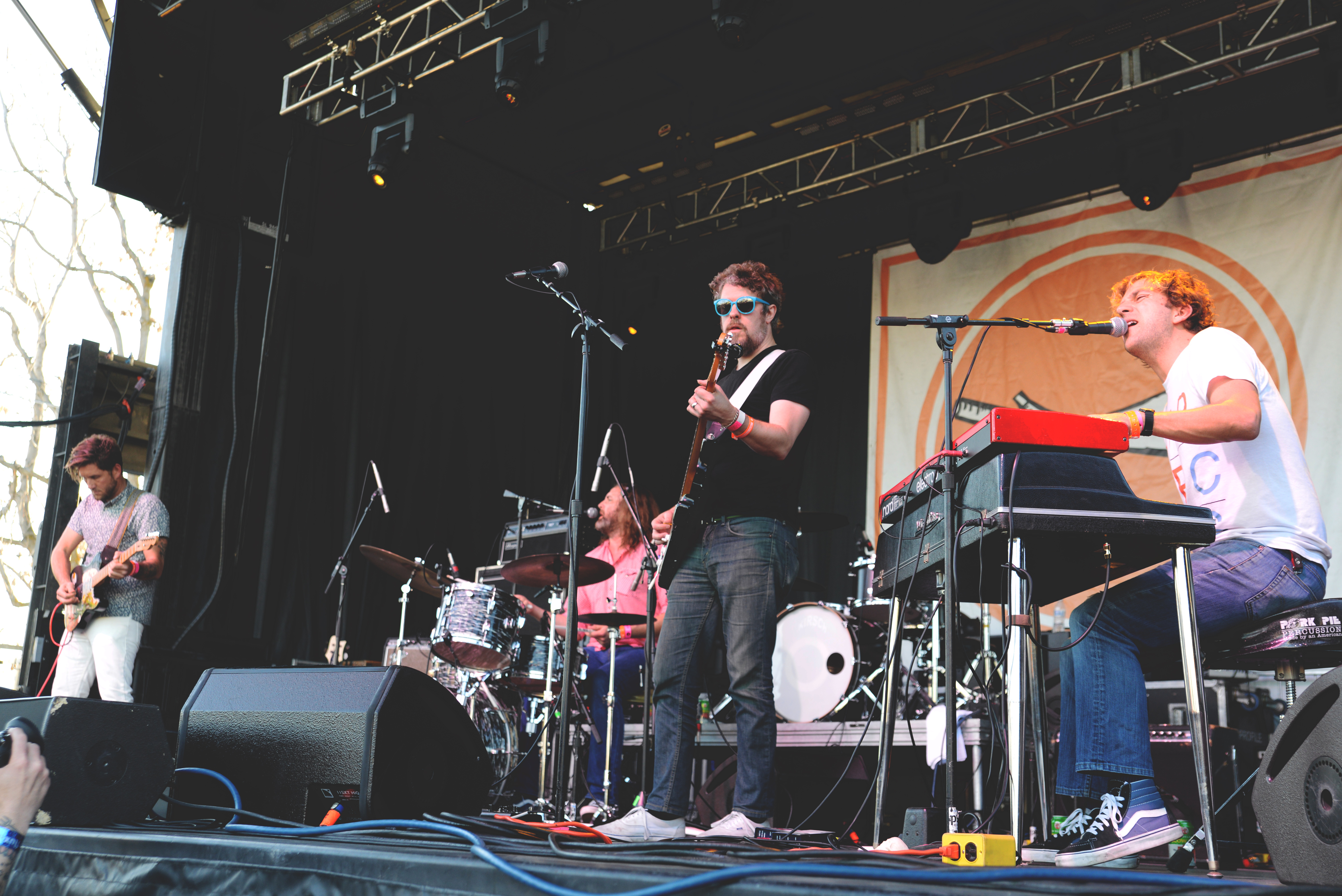 The Donkeys-Main Stage-Treefort2015-Credit-Kasey Elliott